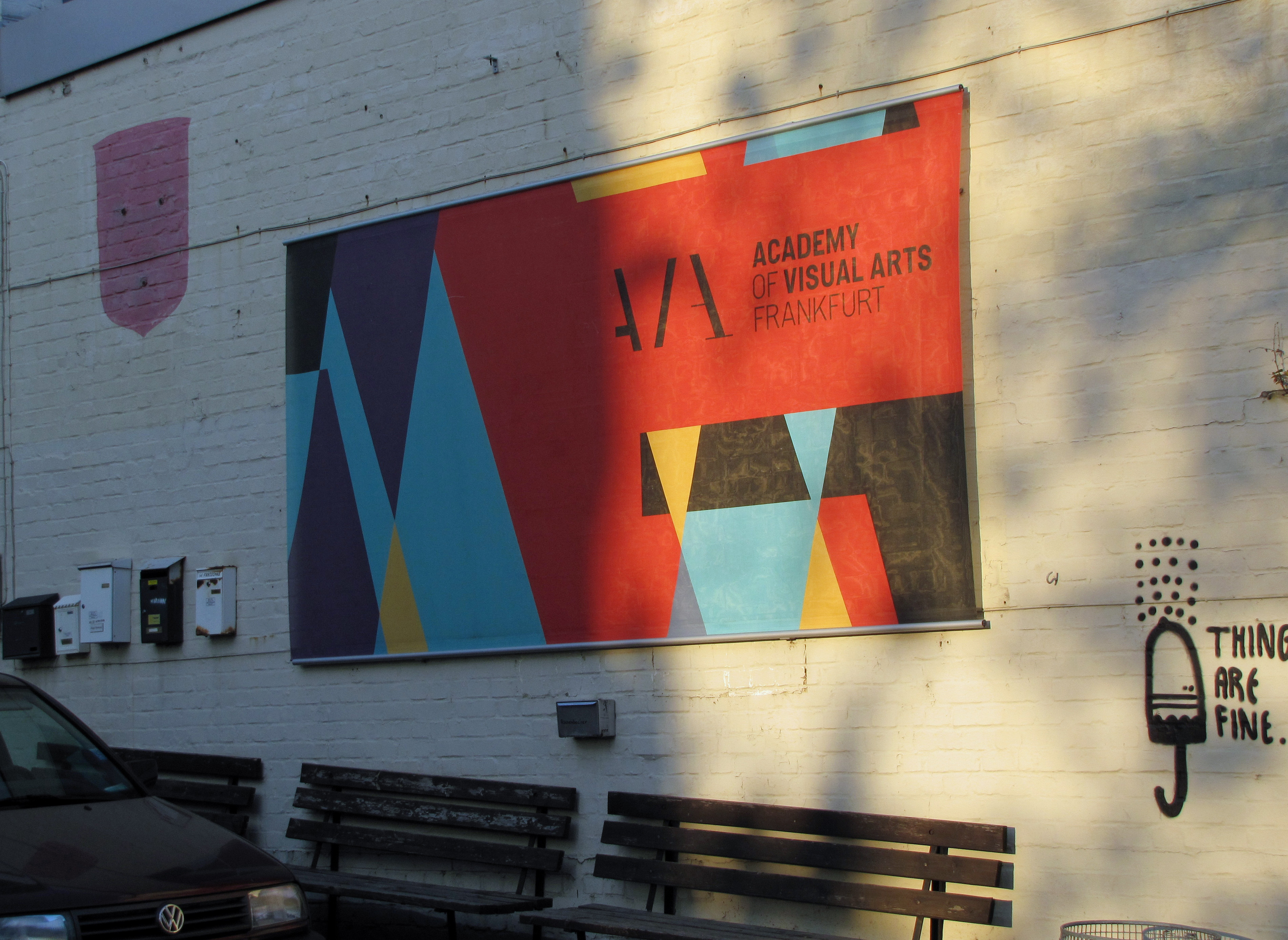 Academy of Visual Arts in Frankfurt-Ostend, Germany.